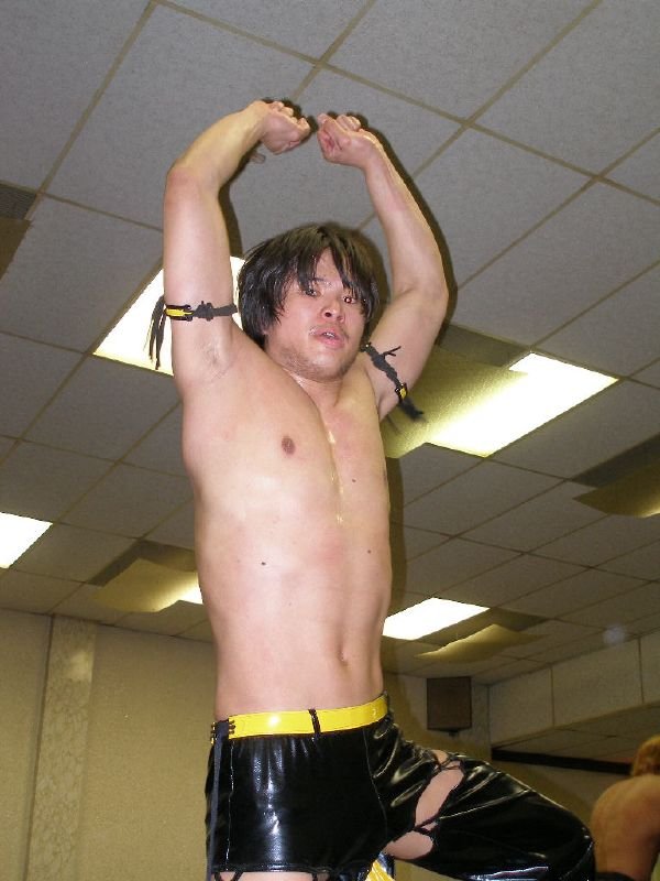 Professional wrestler KUDO at CHIKARA King of Trios 2007.